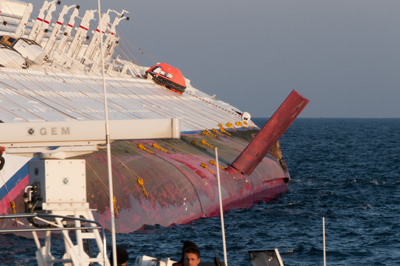 Collision of Costa Concordia